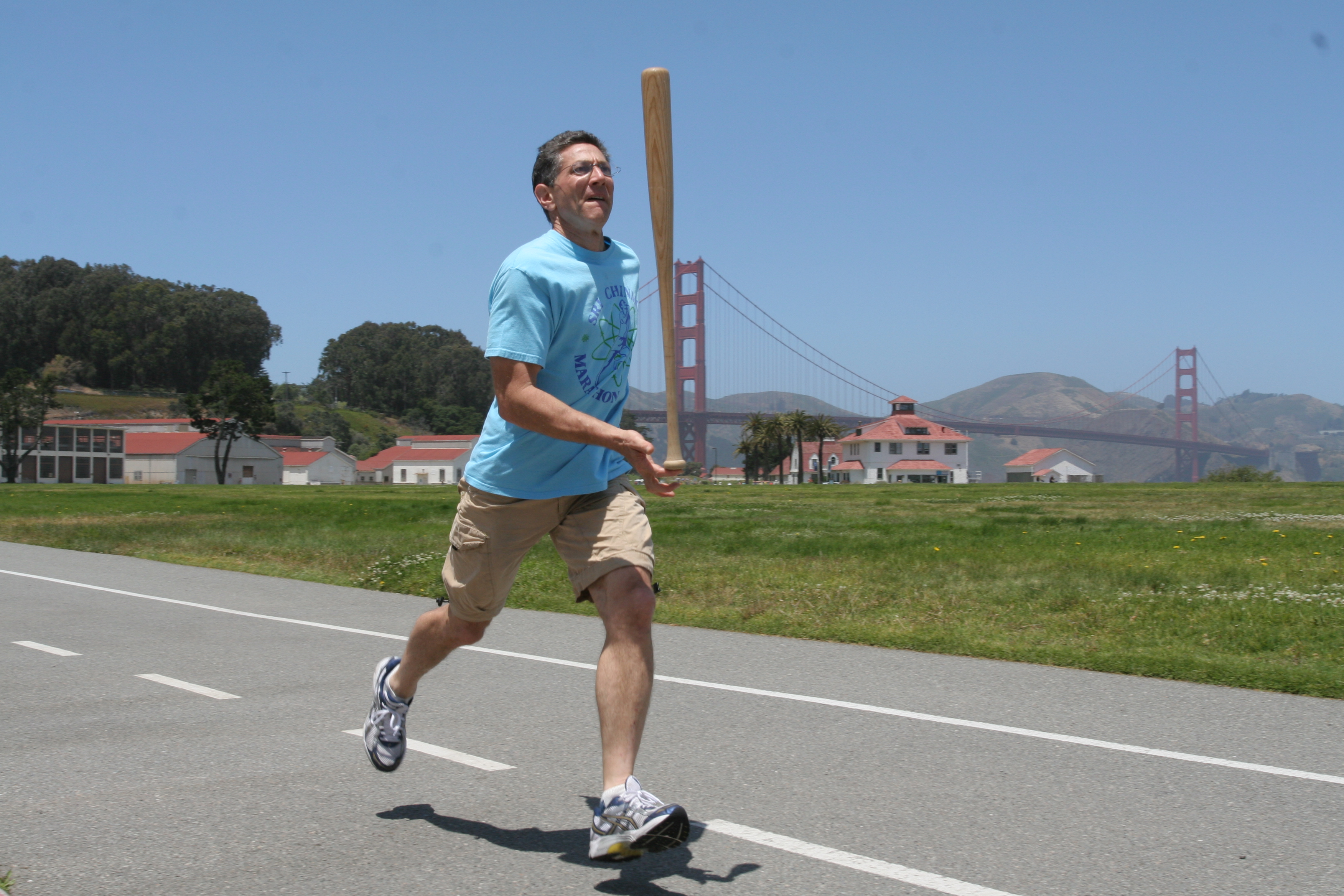 Ashrita Furman, holder of the most Guinness World Records, sets a new record by running a mile balancing a baseball bat on his hand in the fastest time.